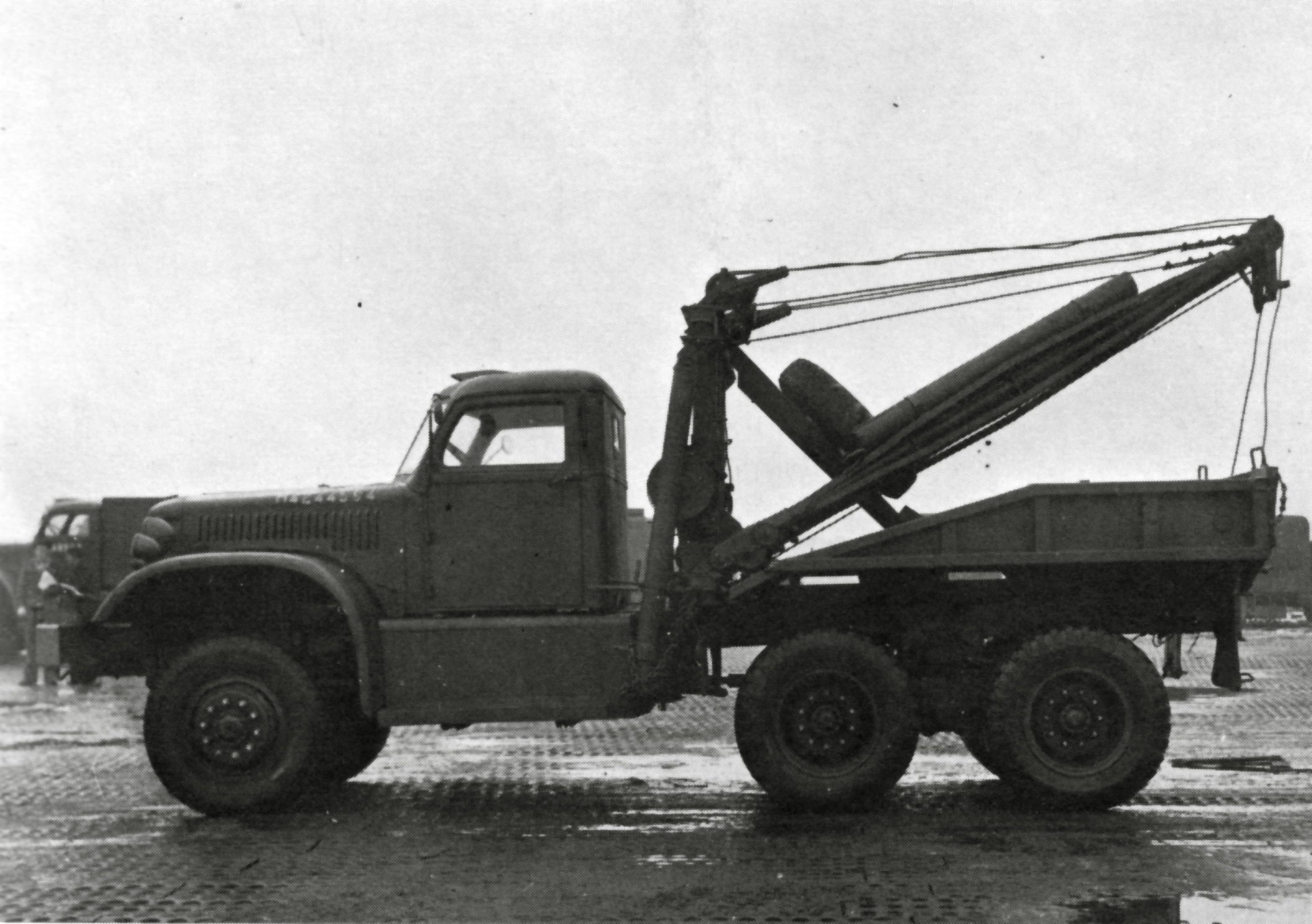 Diamond T 4 ton 6 x 6 Wrecker SWB Closed Cab version in use by the Dutch Army Picture taken at Camp Stroe, The Netherlands